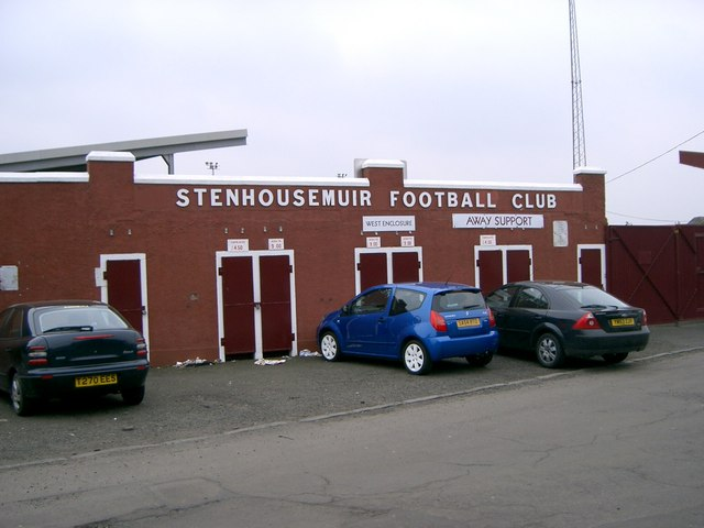 Ochilview Park. Home ground of Stenhousemuir FC since 1890.